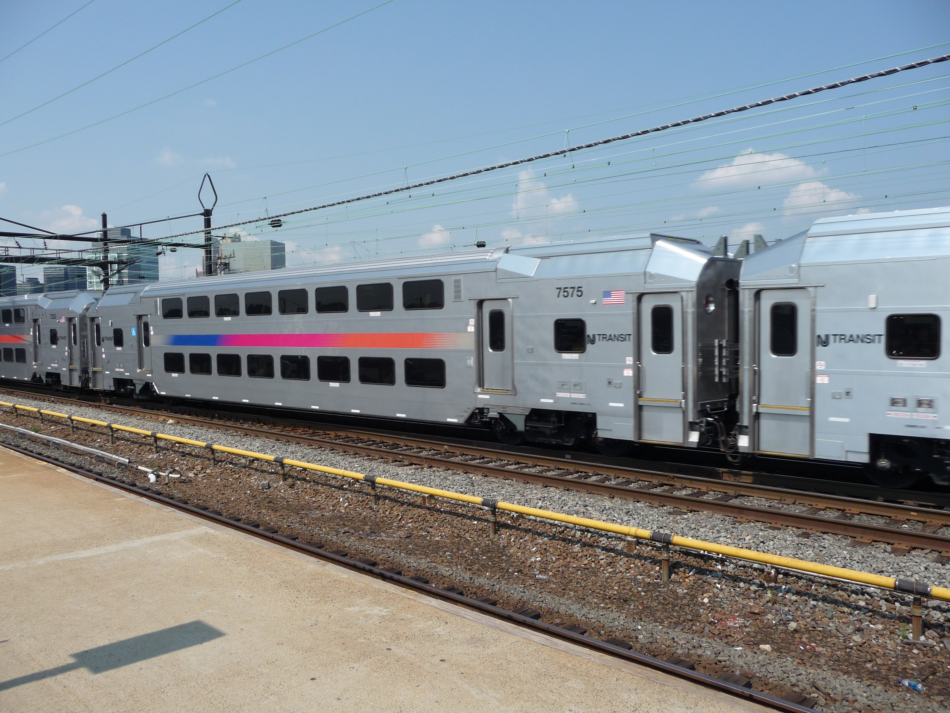 NJ Transit multilevel car 7575 passing through Harrison, New Jersey, USA